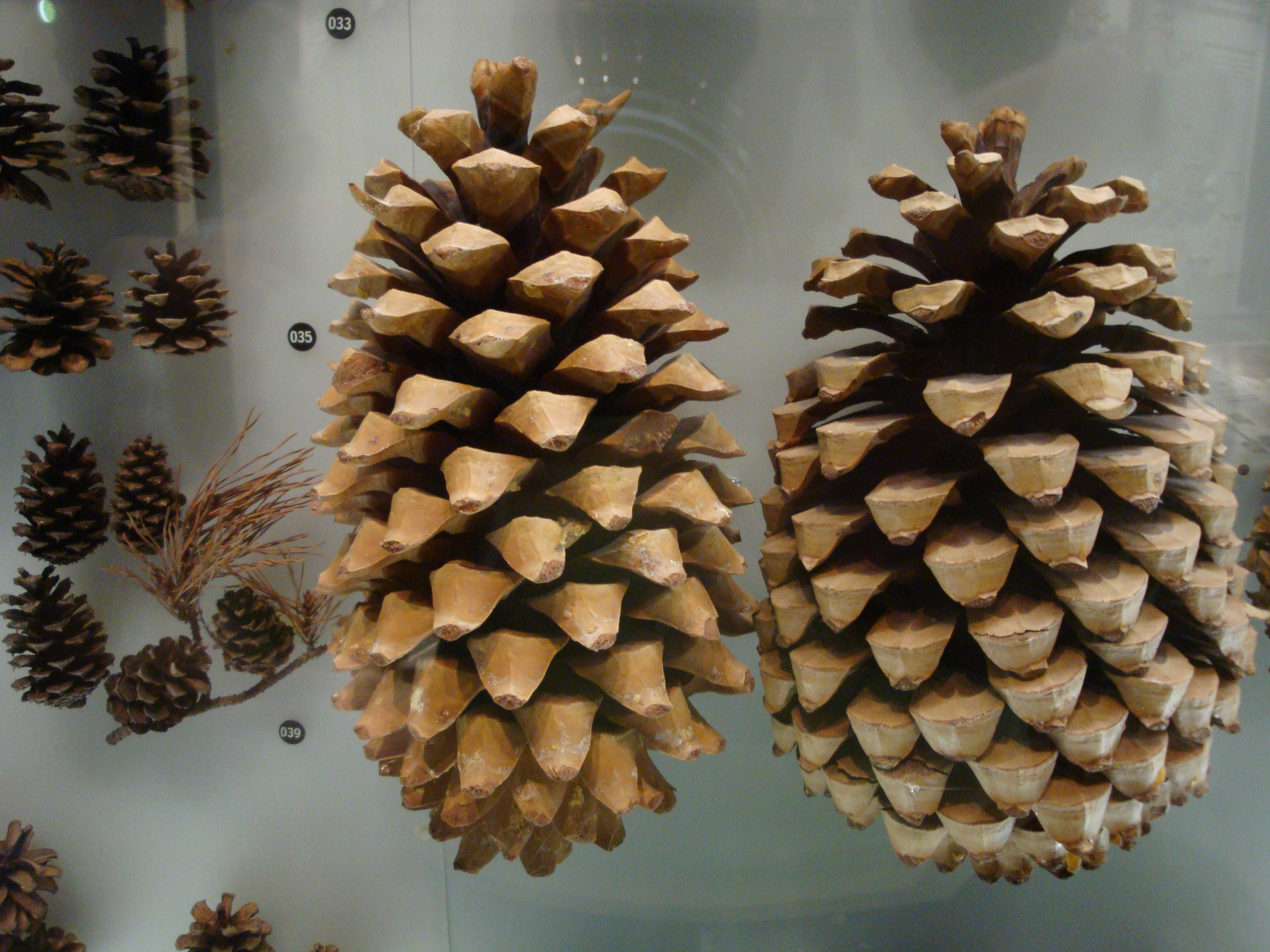 Global Gallery